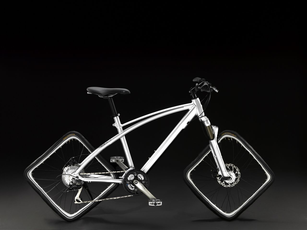 inverted caternaries, to be exact(more info). See, a bike with square wheels(media) can only be run on a special caternary road(media player).. And as far as I know, there aren't many caternary highways. Original image courtesy of richardmasoner.